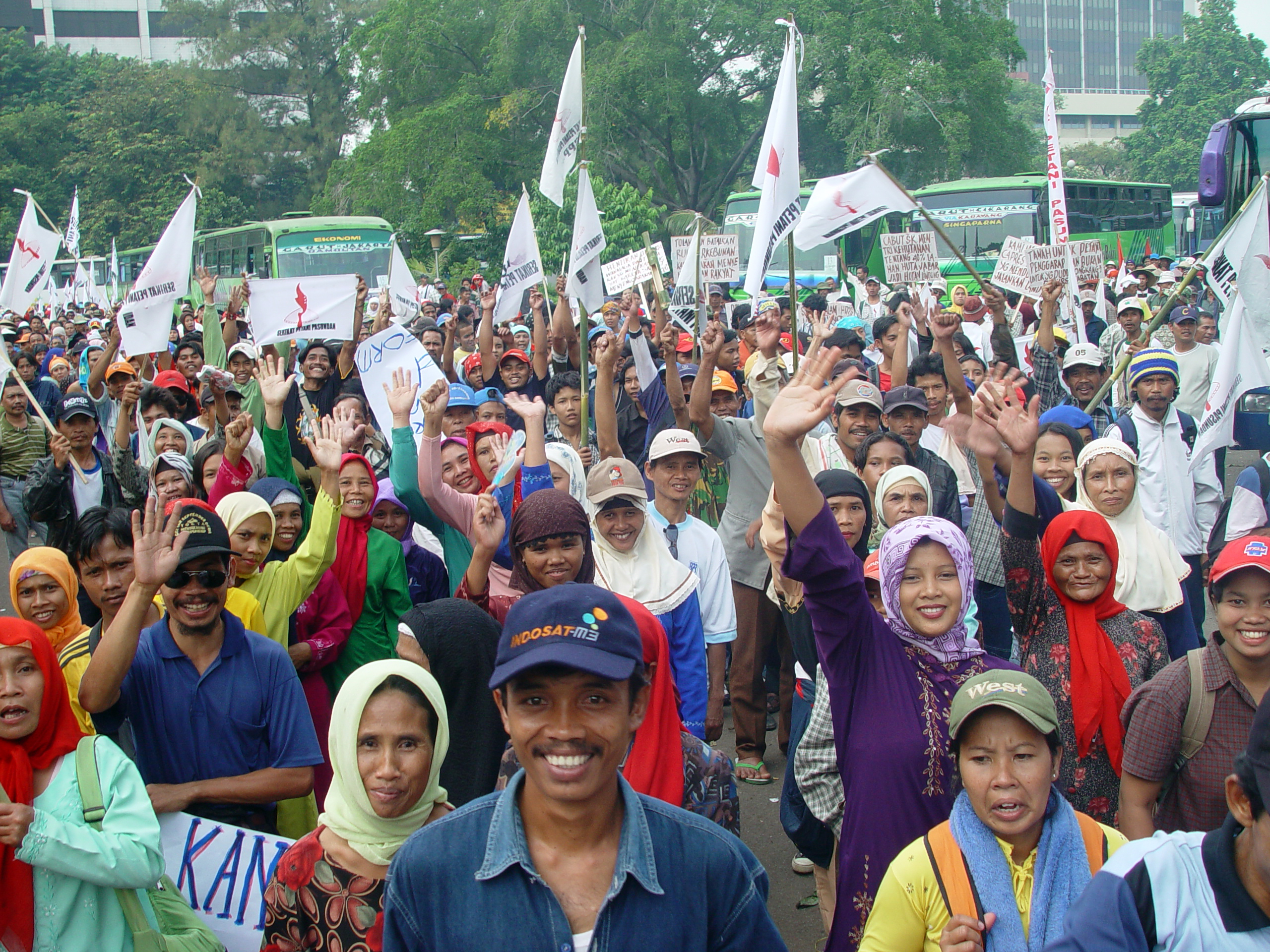 Farmer land rights protest in Jakarta, Indonesia.